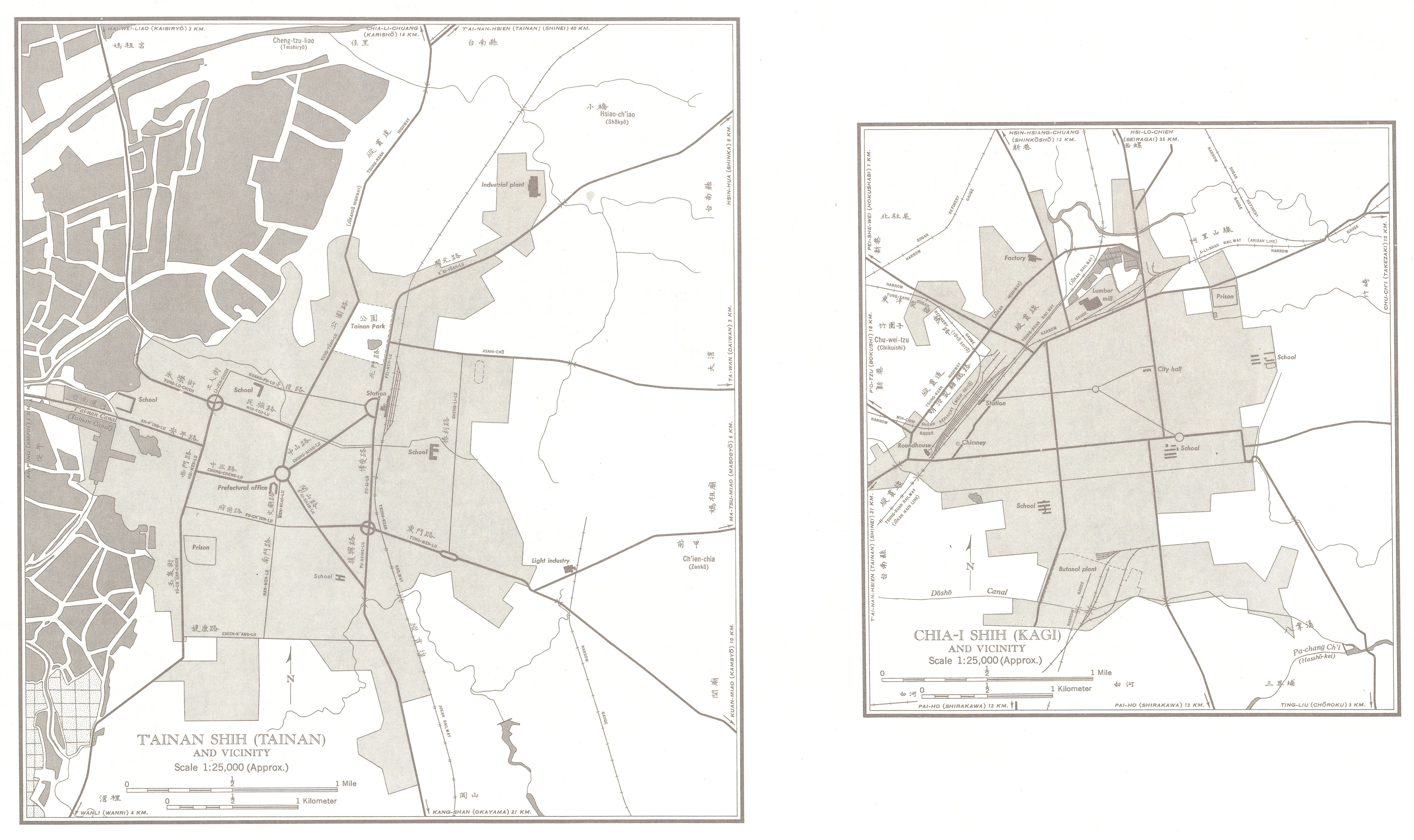 Tawian AMS Topographic Maps